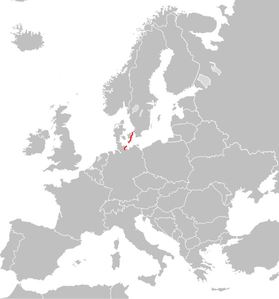 The European route 47